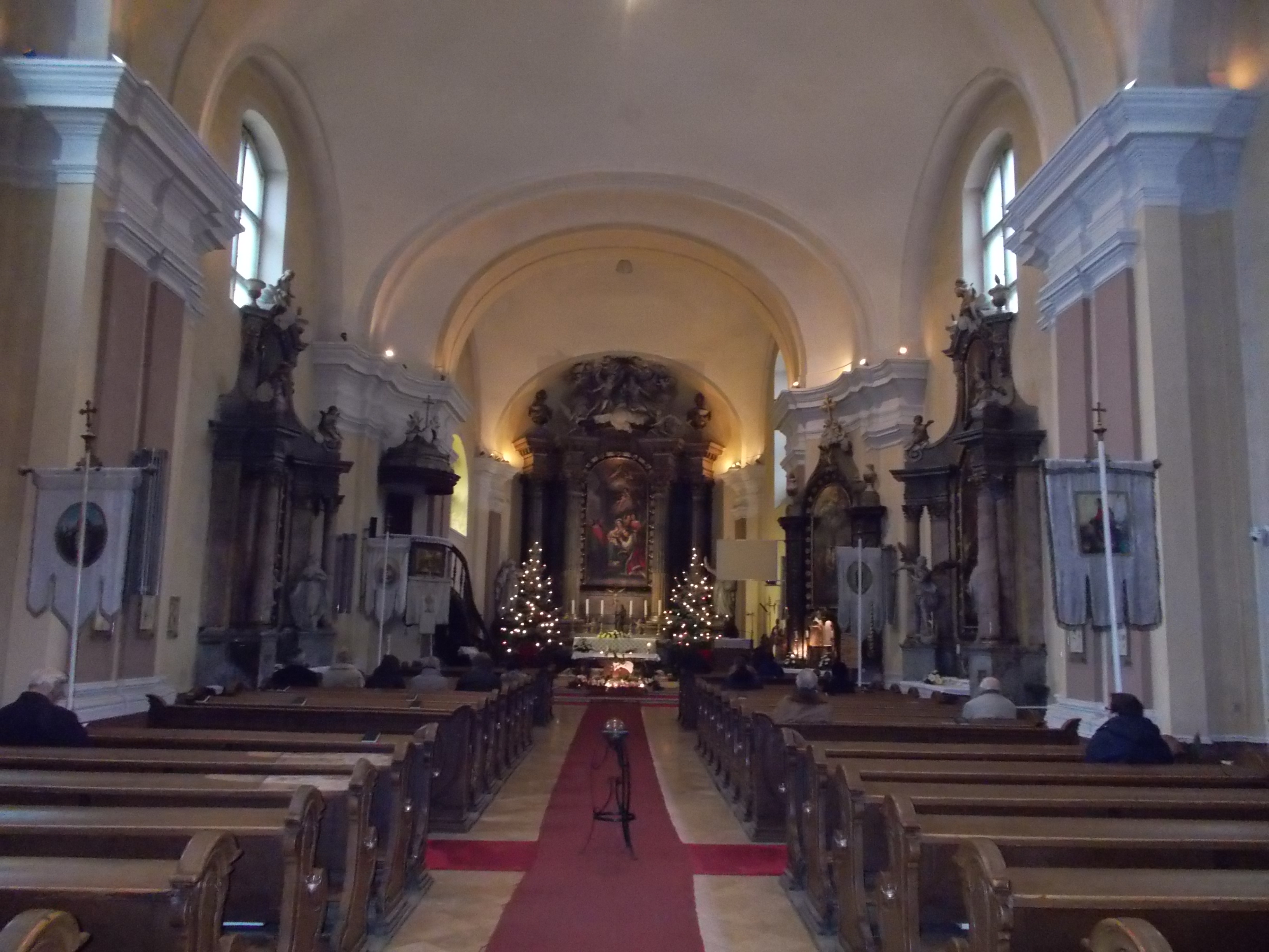 Saint Catherine Church in Tabán, Budapest District I. A Baroque Eclectic church built in 1728 by Keresztély Obergruber. - Attila Street, Budapest